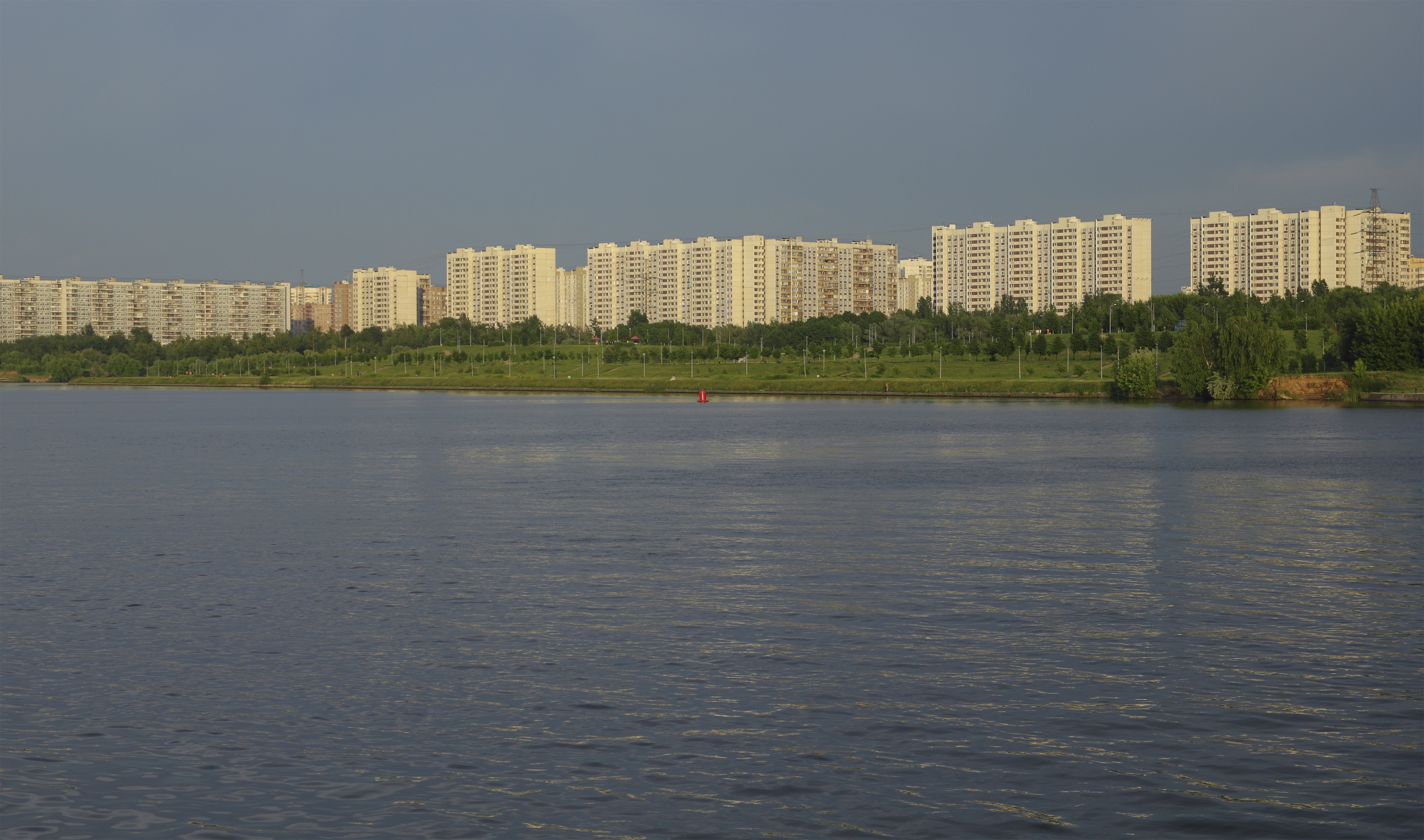 Apartment houses in Brateyevo, Moscow